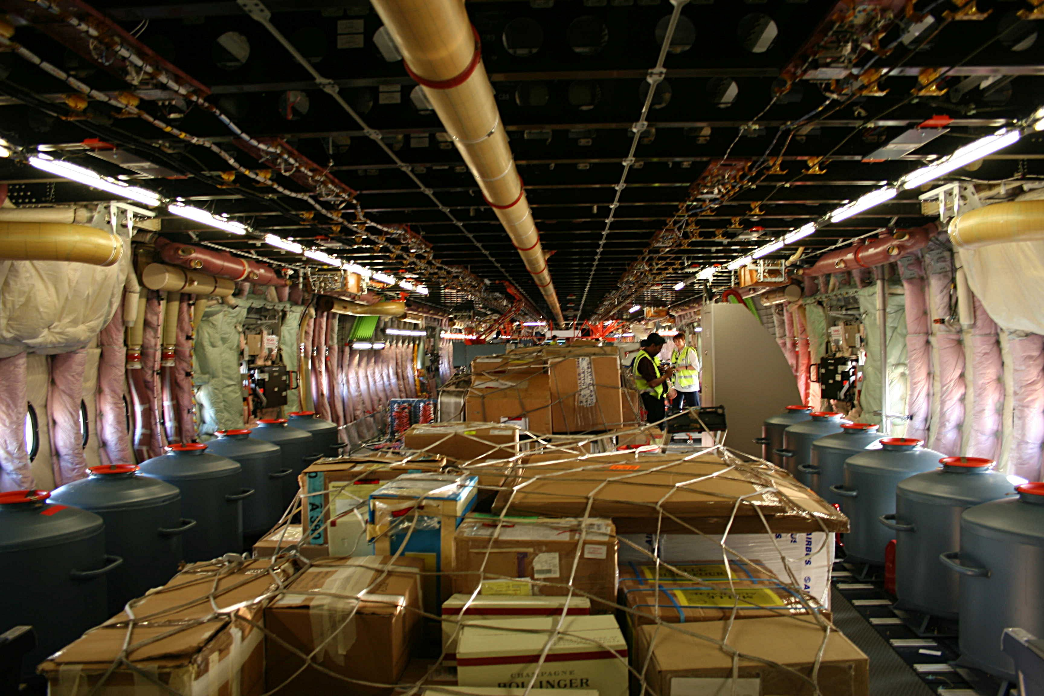 Lower deck of the cabin of an Airbus A380 prototype photographed in 2005 during a visit to customer Quantas in Sydney. Freight is loaded in the center, and water ballast tanks used to shift the center of gravity position during test flights can be seen on the sides.